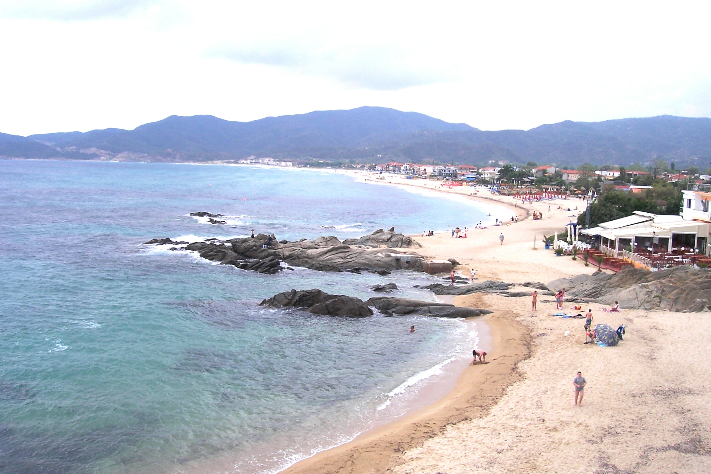 Sarti, Chalkidiki Prefecture, Greece.